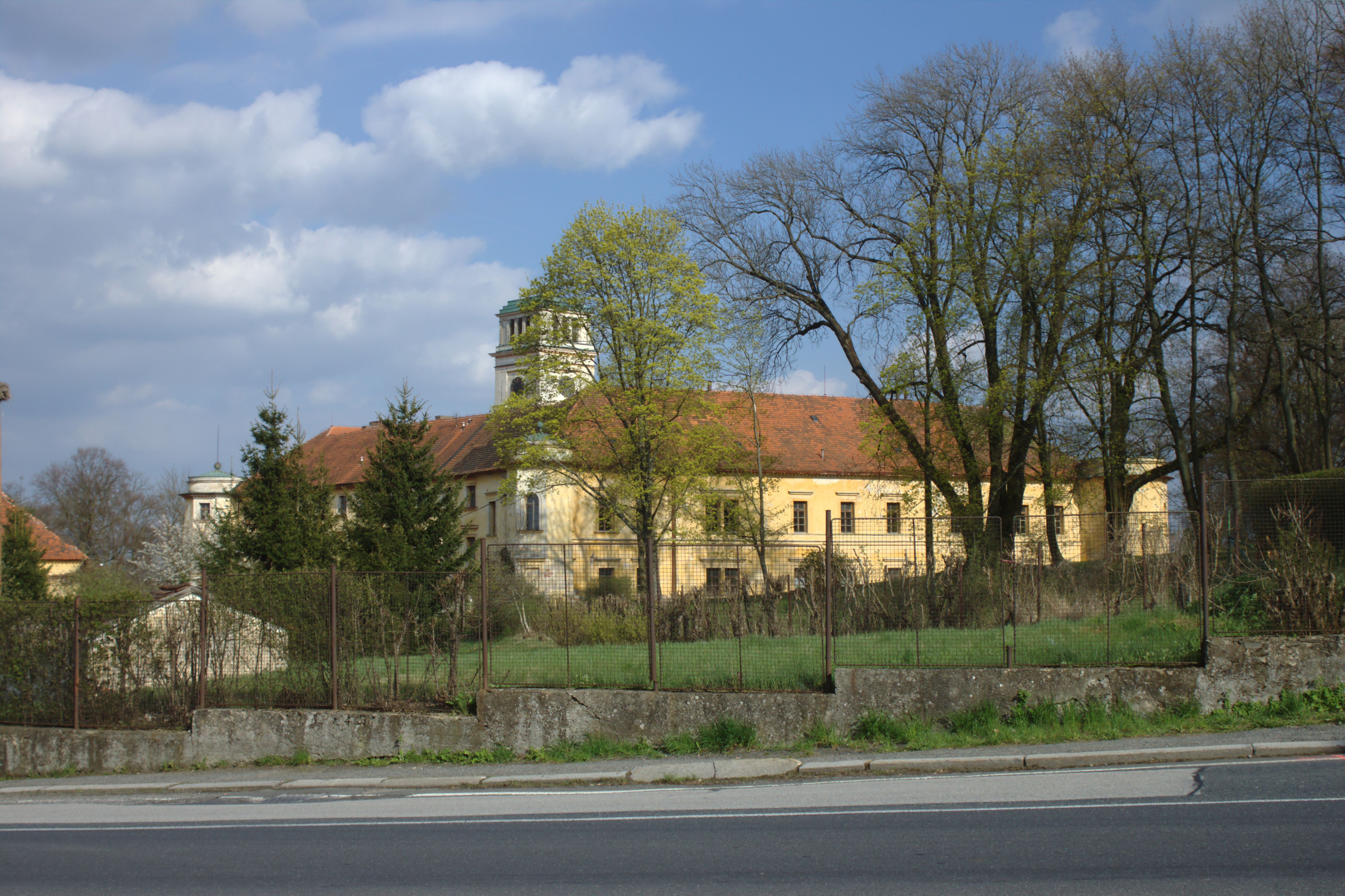 View of the Nalžovské Hory Castle, Plzeň Region, CZ